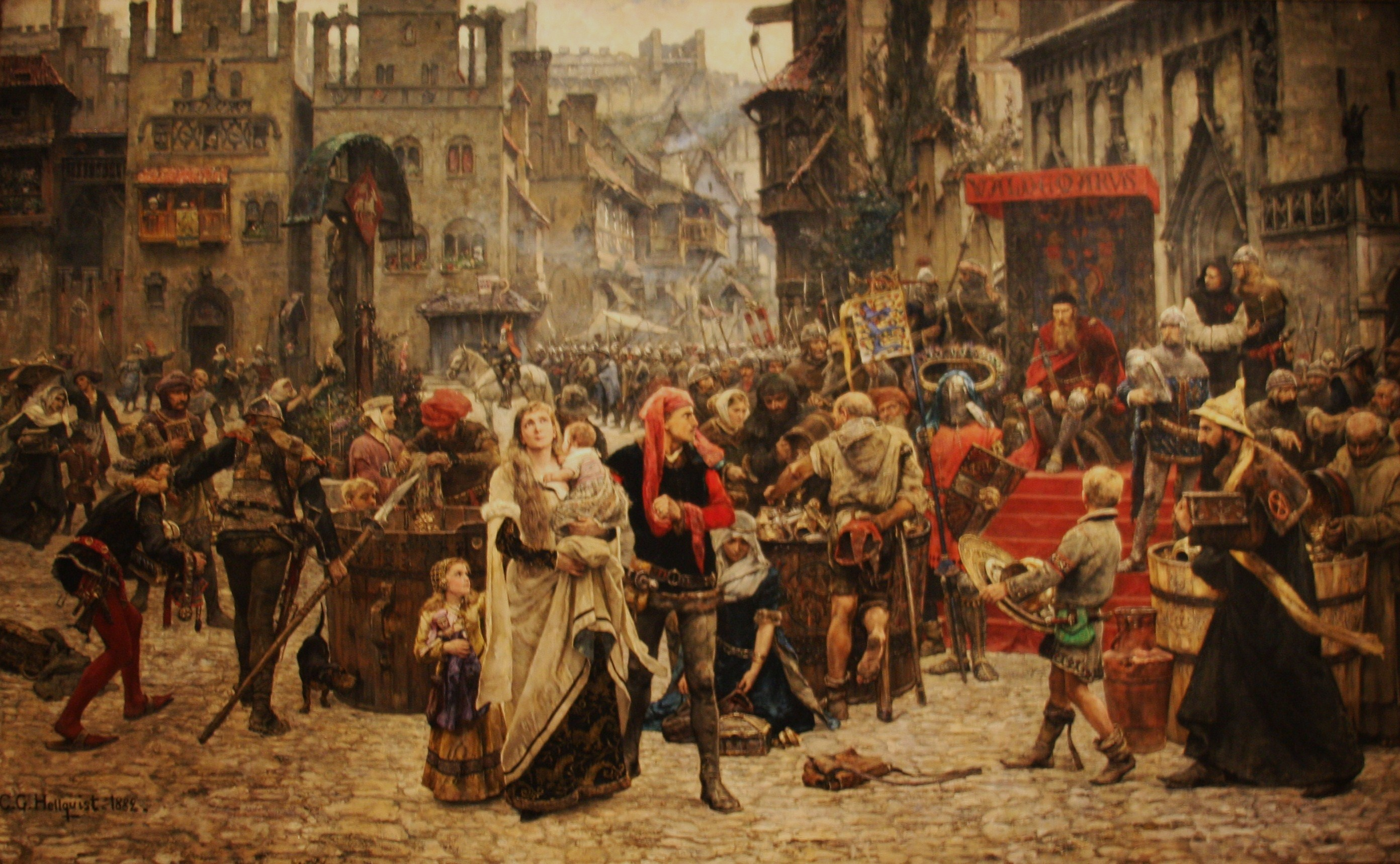 CARL GUSTAF HELLQVIST, painting "Valdemar Atterdag Holding Visby to Ransom, 1361". Dated 1882. National Museum, Stockholm.